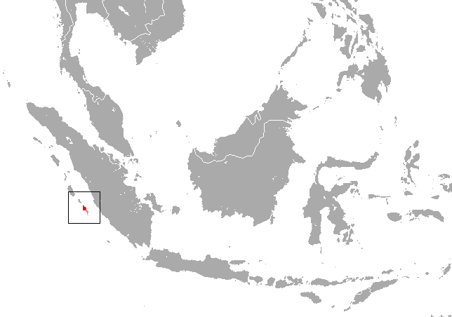 Short-headed Roundleaf Bat (Hipposideros breviceps) range